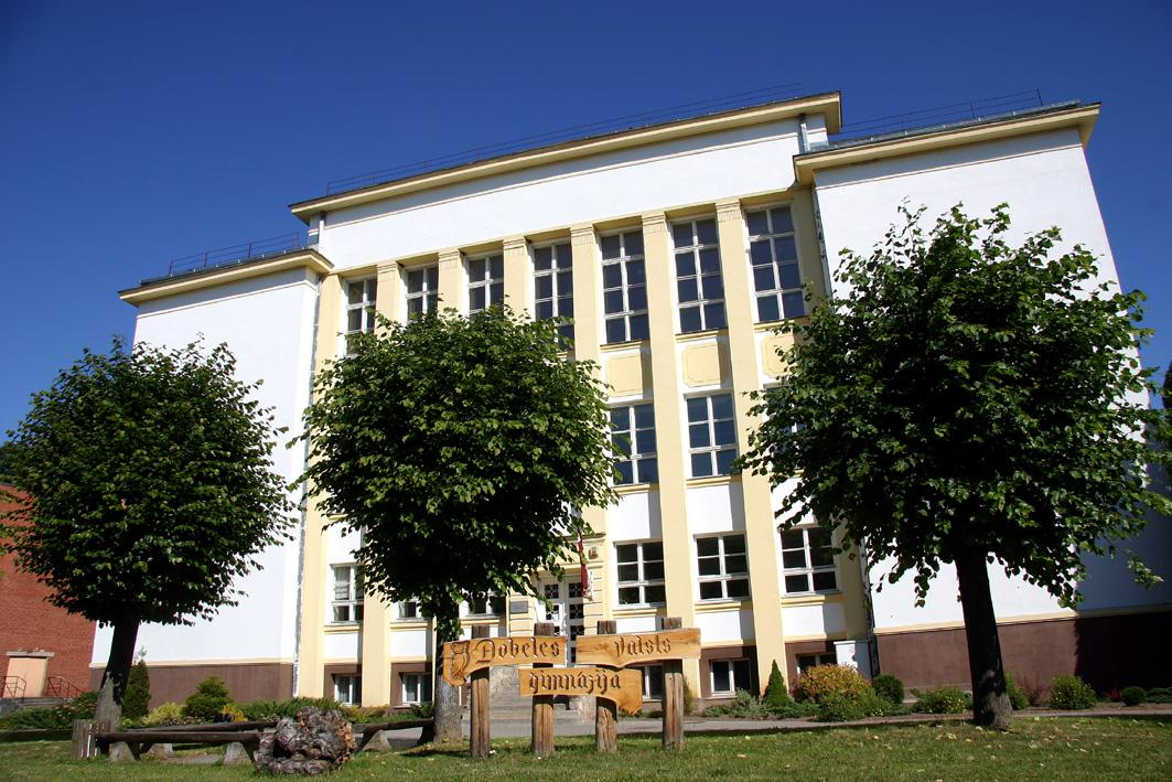 Dobele_State_gymnasium